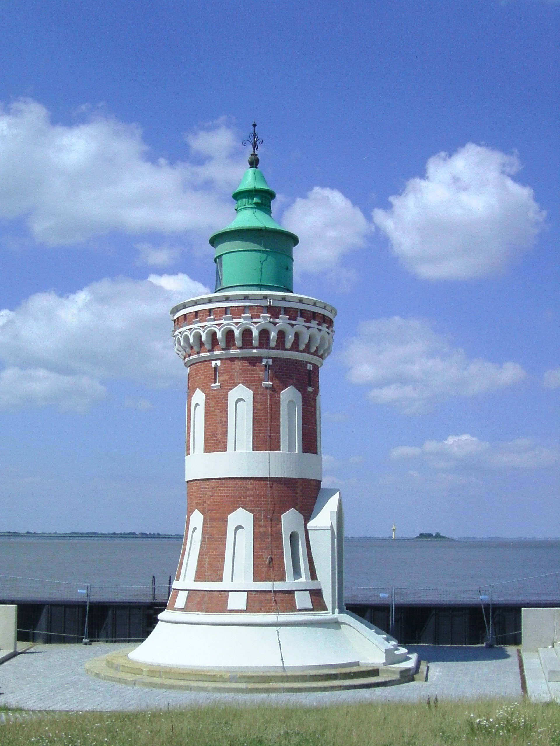 The so called Pingelturm in Bremerhaven still serves as a navigational light (ship lock Kaiserschleuse Eastern light)